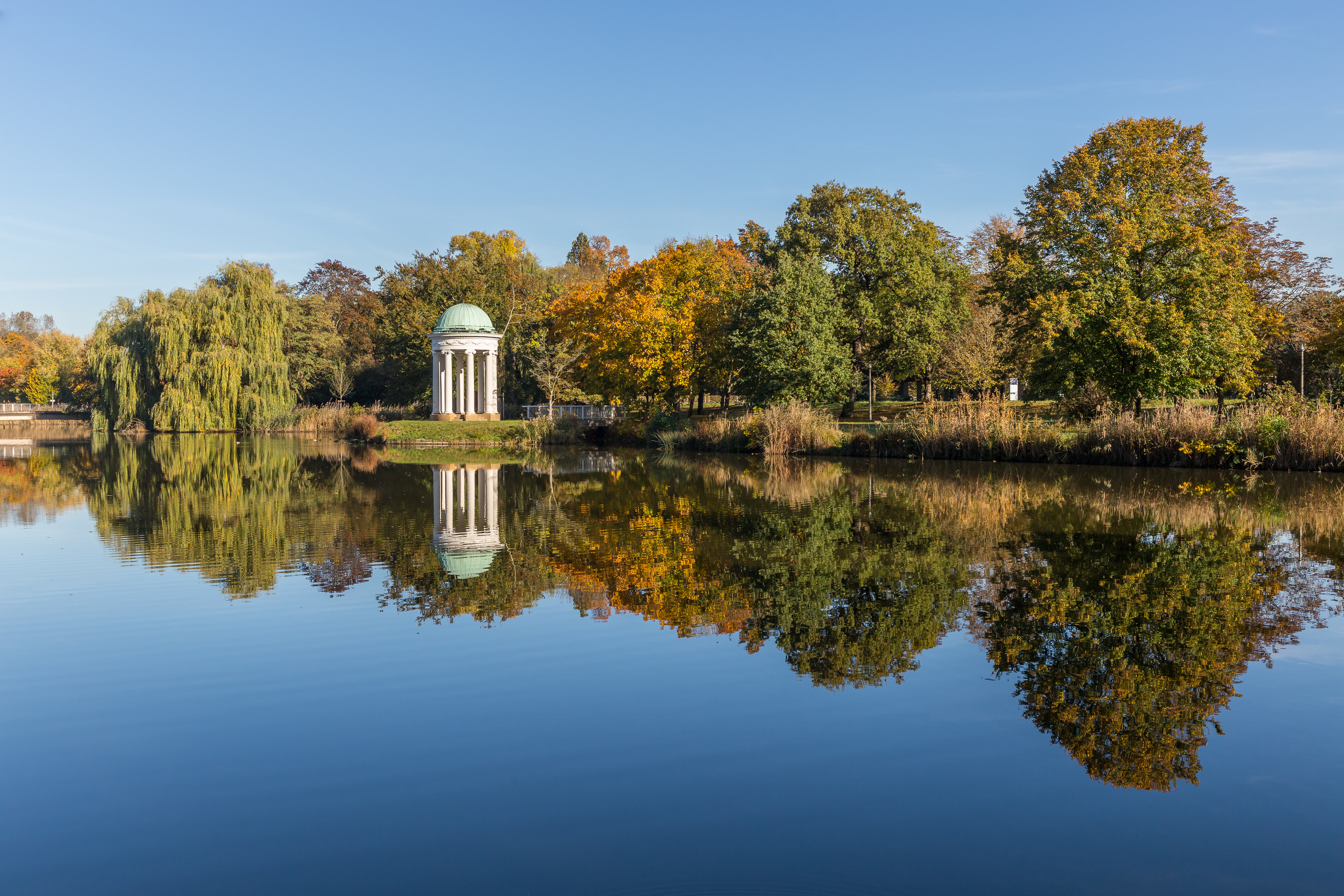 The so called "Musentempel" in the agra park in Markkleeberg (Saxony) on a sunny autumn day.